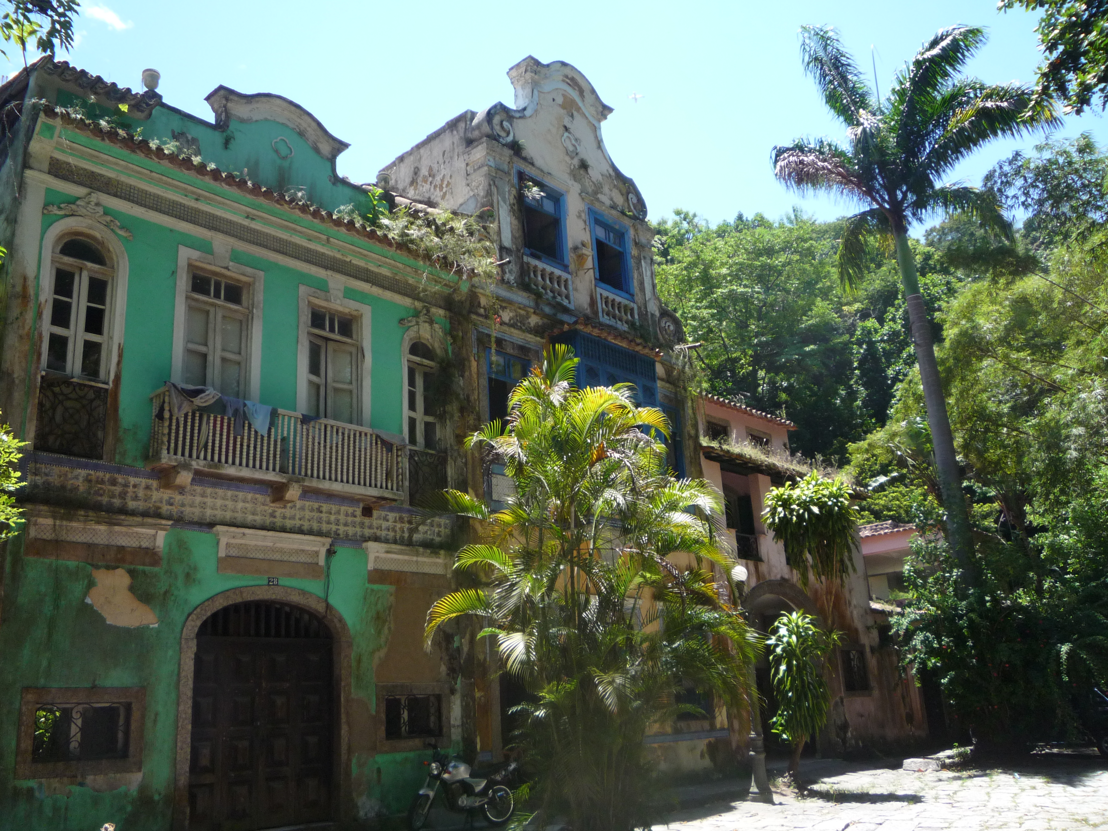 Largo do Boticario square in Rio de Janeiro, Brazil